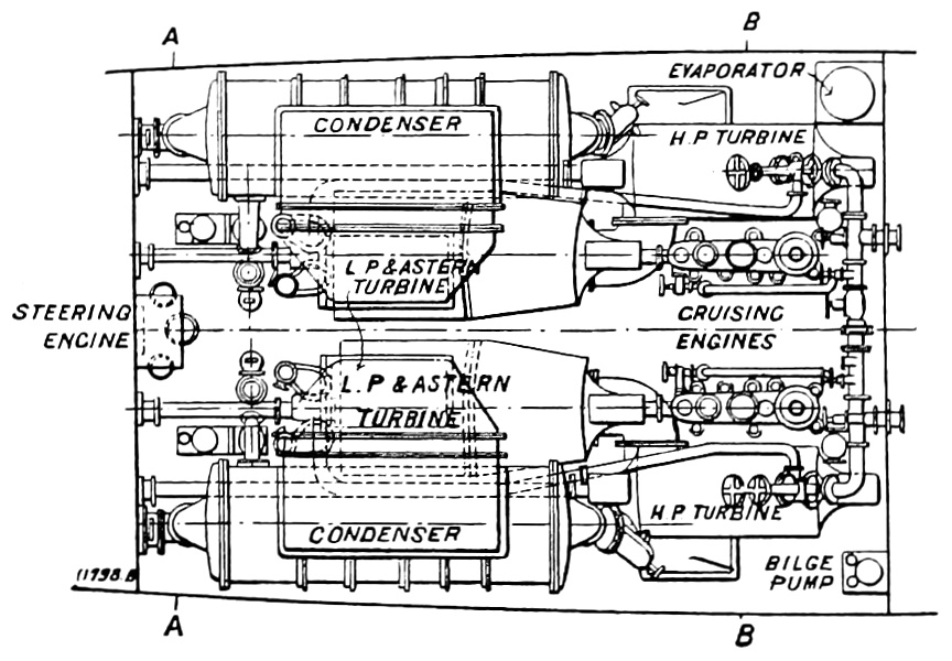 First set of Combination Machinery — in H.M.S. 'Velox.', Figure 41 from The Steam Turbine